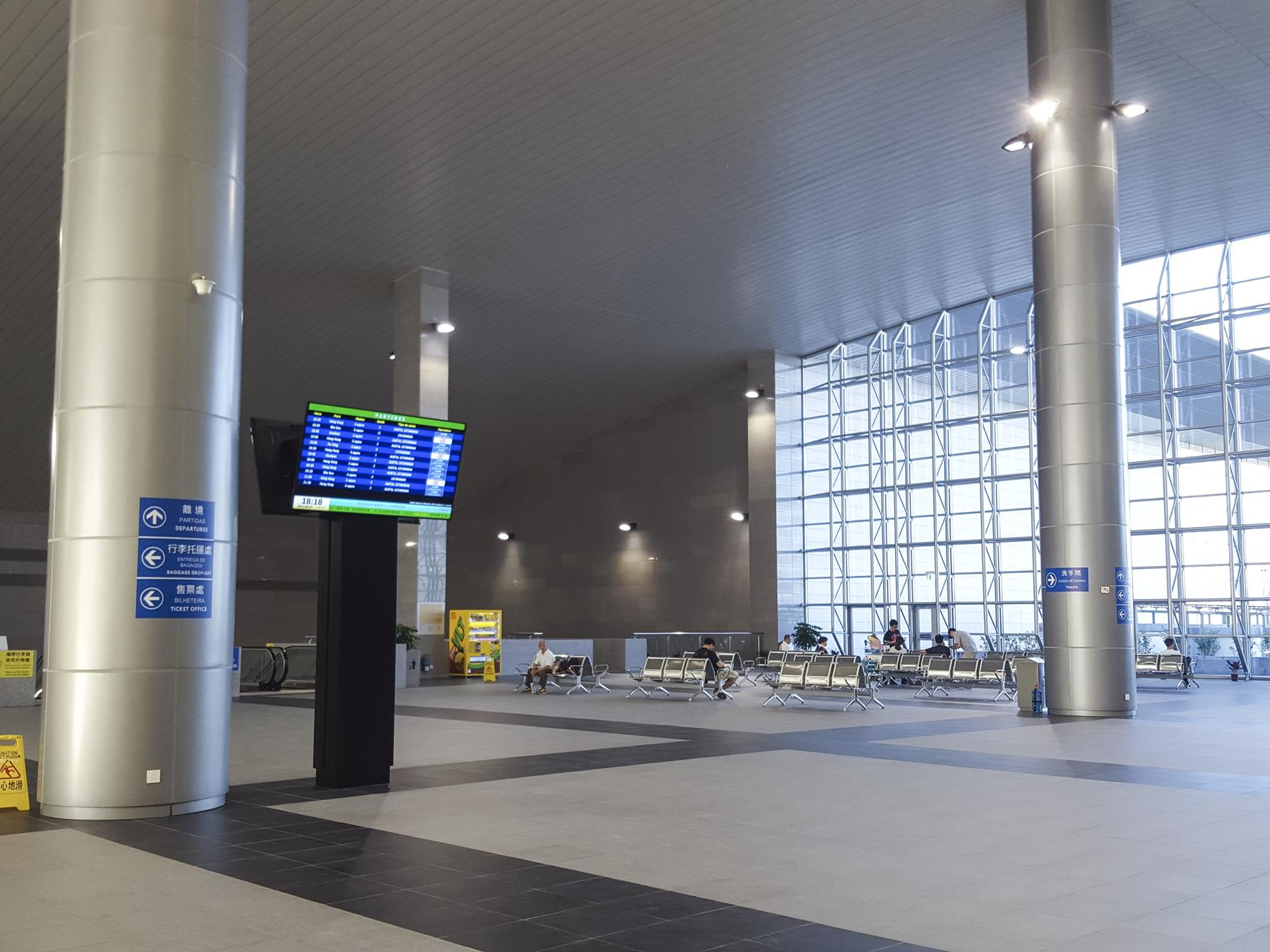 Public Waiting Area in Taipa Ferry Terminal